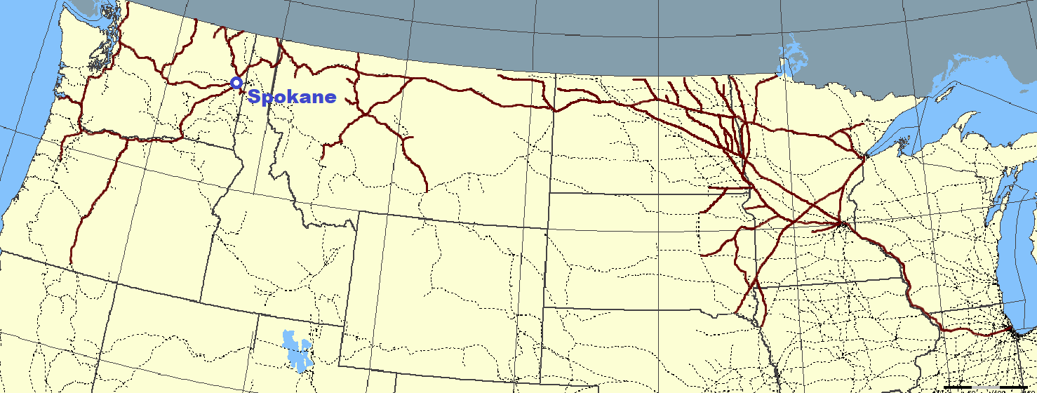 Route map from the Great Northern Railway (US), circa 1920. Red lines are the GN route; dotted lines are other railroads. Created from the Map Maker at and routes drawn in, using a 1920 map as a reference. (upper left: marked Spokane)